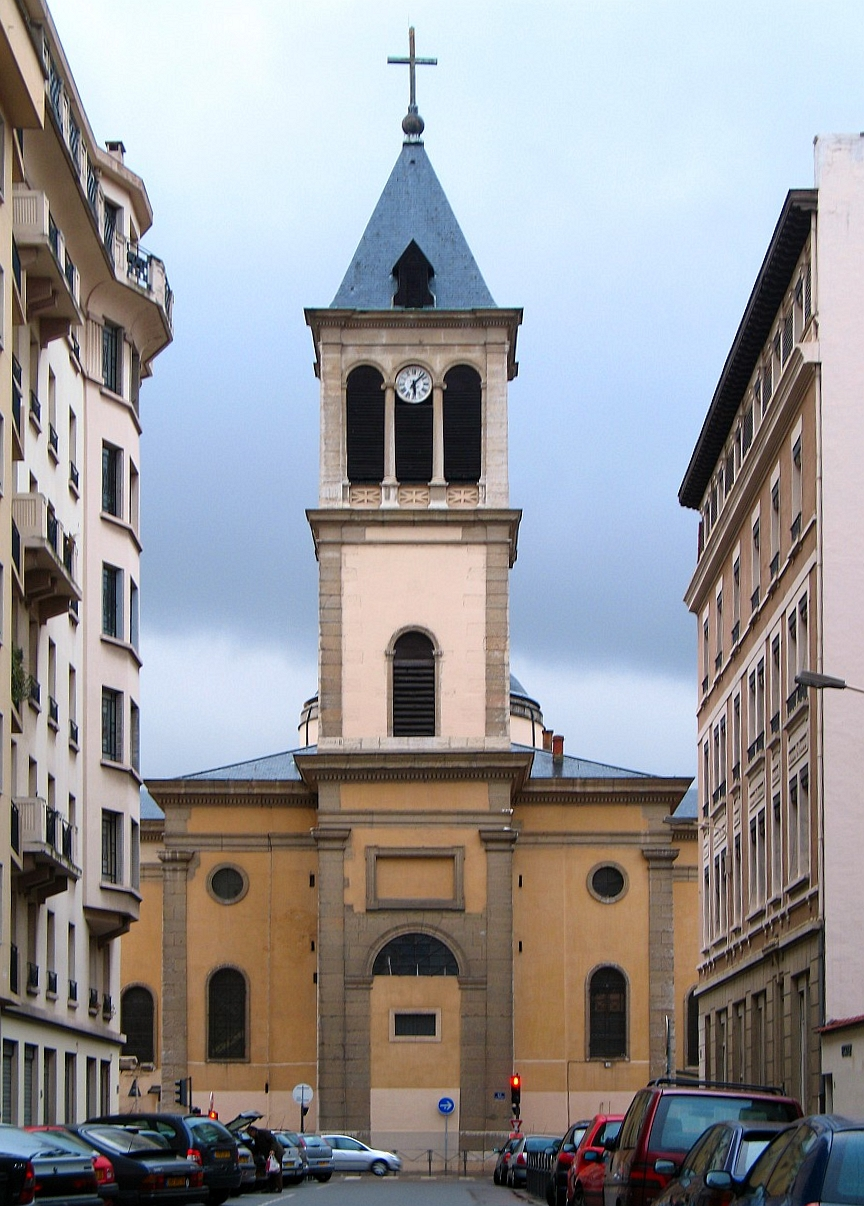 Catholic church Saint Pothin in Lyon, France; back view